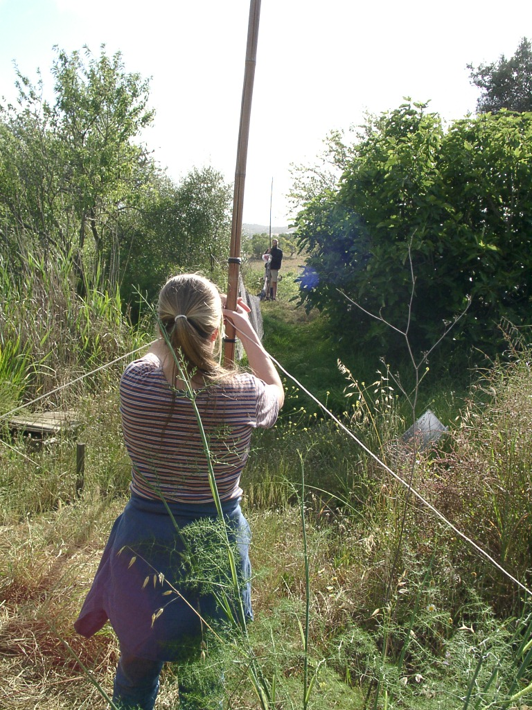 Bird ringing (bird banding) sequence, picture 1: Stretching a mist net. Cruzinha, Portimão, Portugal.